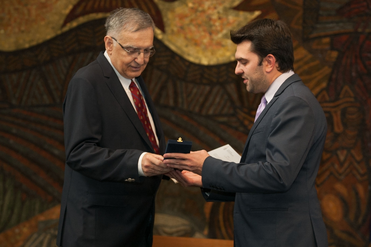 Larry Koroloff receives the Golden Laurel Branch of the Ministry of Foreign Affairs of the Republic of Bulgaria, presented by Deputy Minister Georg Georgiev